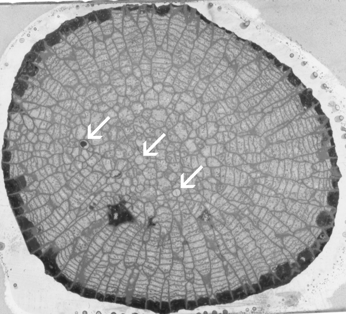 C.sibiriensis in Paleofavosites cf.collatatus Klaamann, 1961, GIT 481-65, Bagovitsa A, Muksha Subformation; H, transverse section, the arrows point to C. sibiriensis